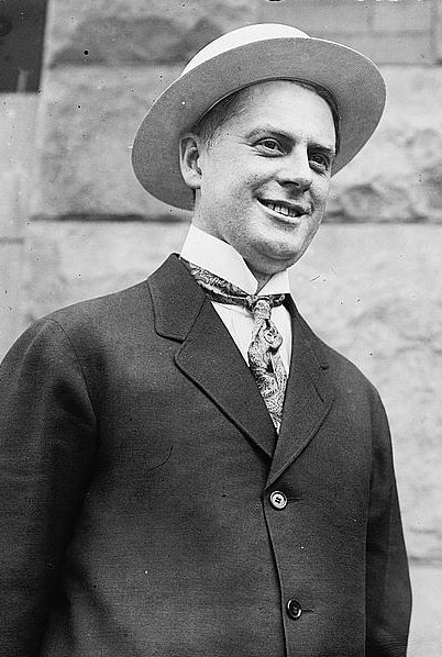 U.S. Representative from New York William S. Bennet.